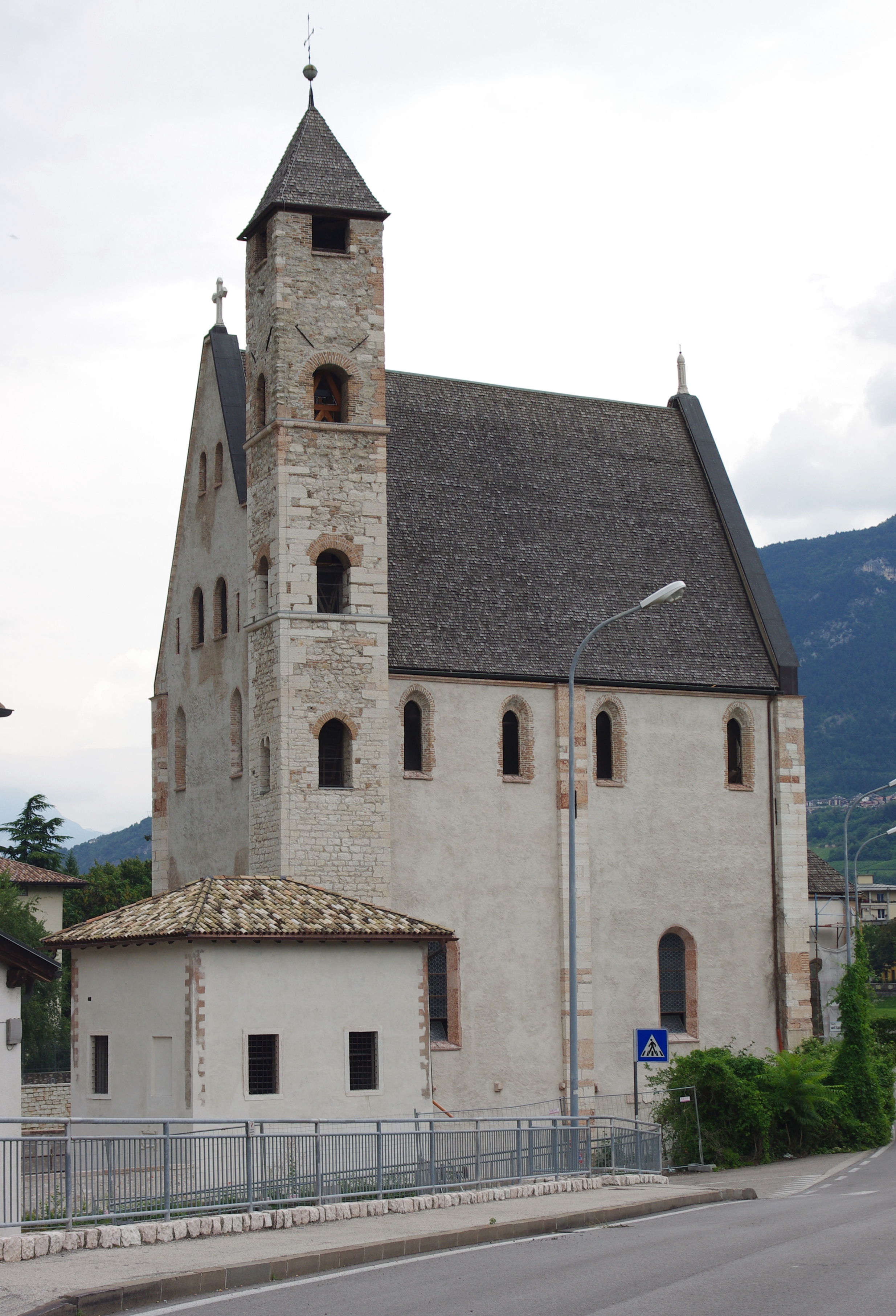 The Sant'Apollinare church in Trento